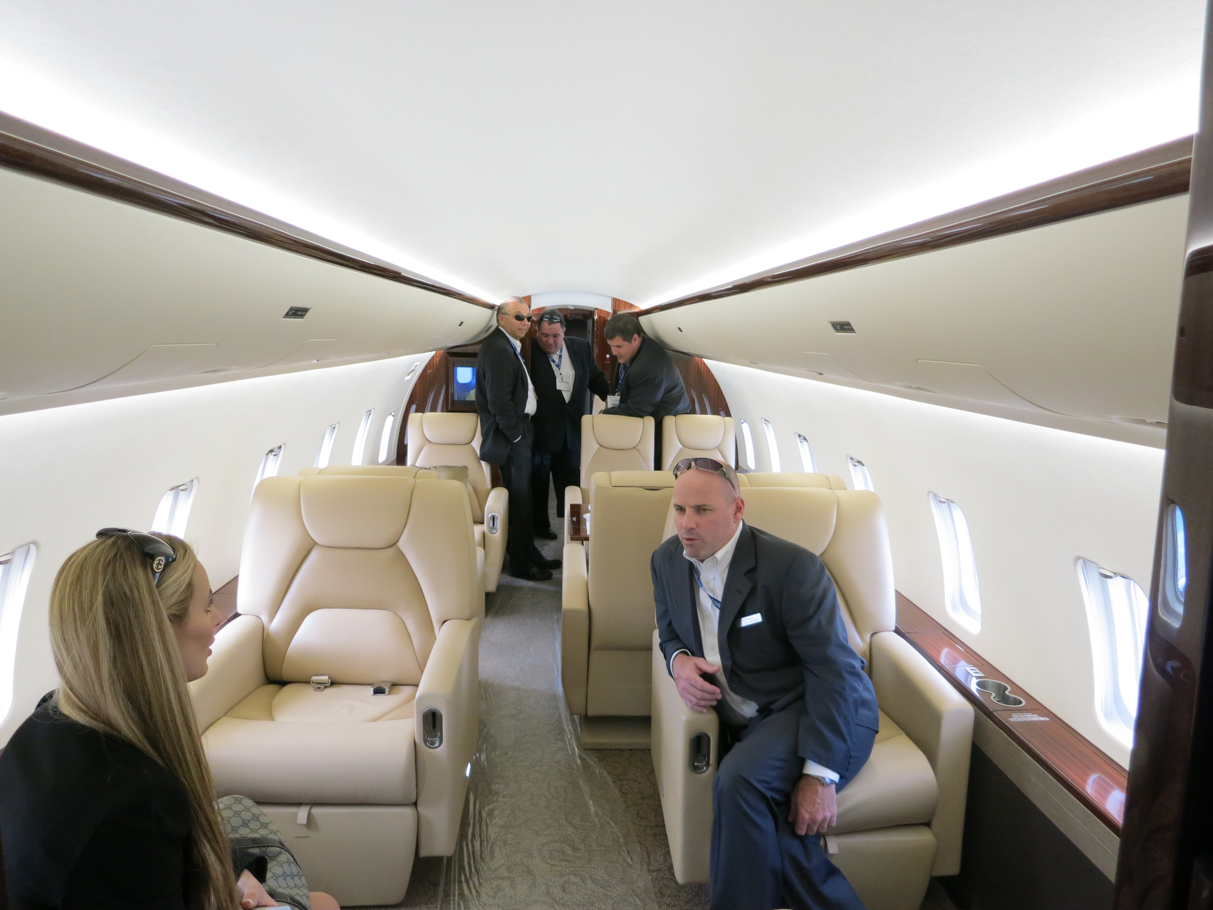 Interior of Bombardier Challenger 850 cabin.